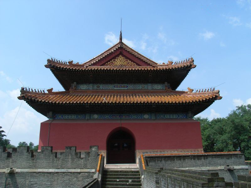 Ming Pavilion in Fuling Tomb Shenyang.